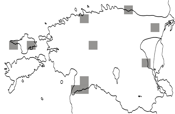 Alectoria sarmentosa. Distribution in Estonia 2011.